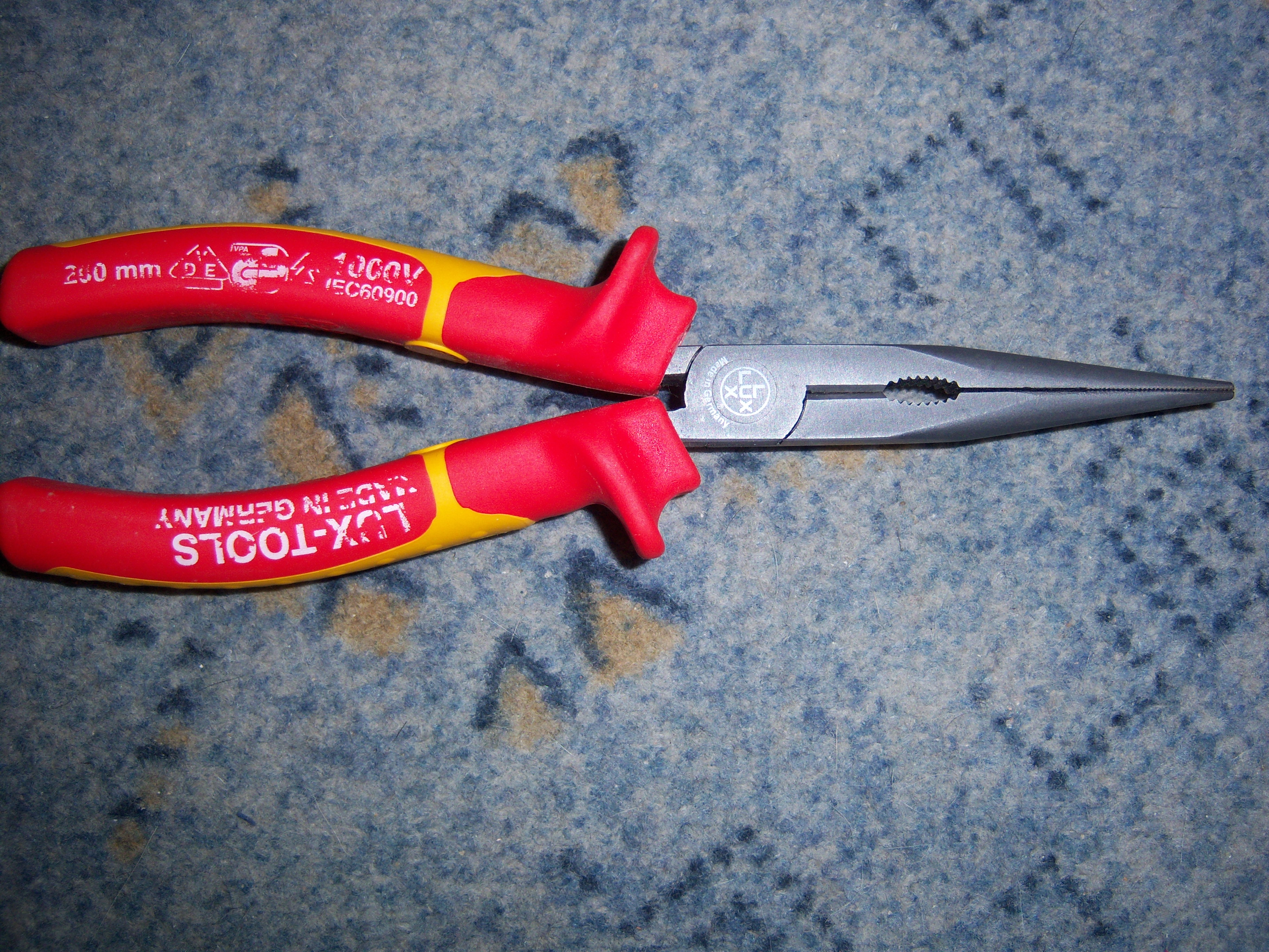 Lux-tools pliers 1000V Profi Plus*****